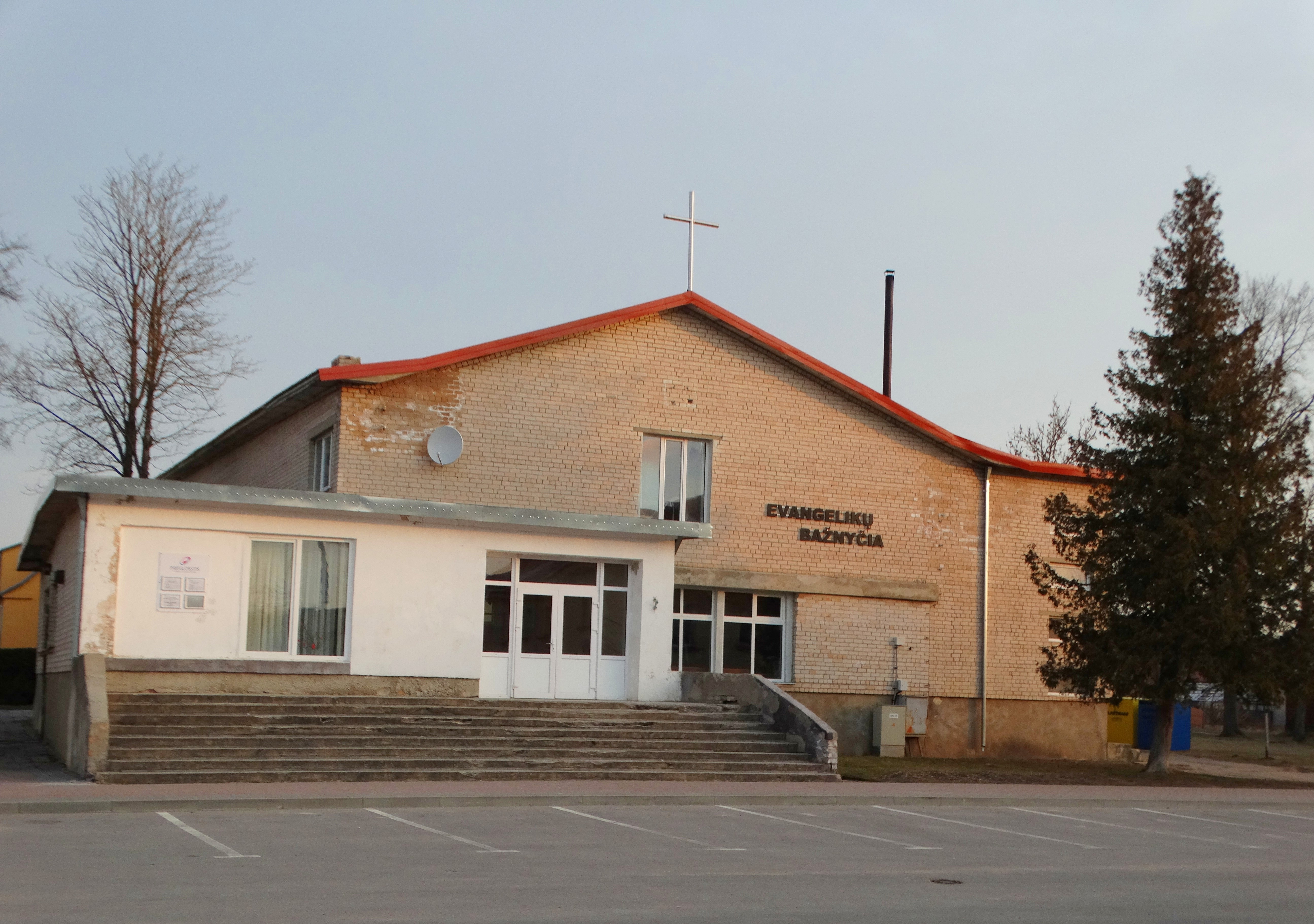 Evangelic Church (Word of Faith), Naujoji Akmenė, Lithuania